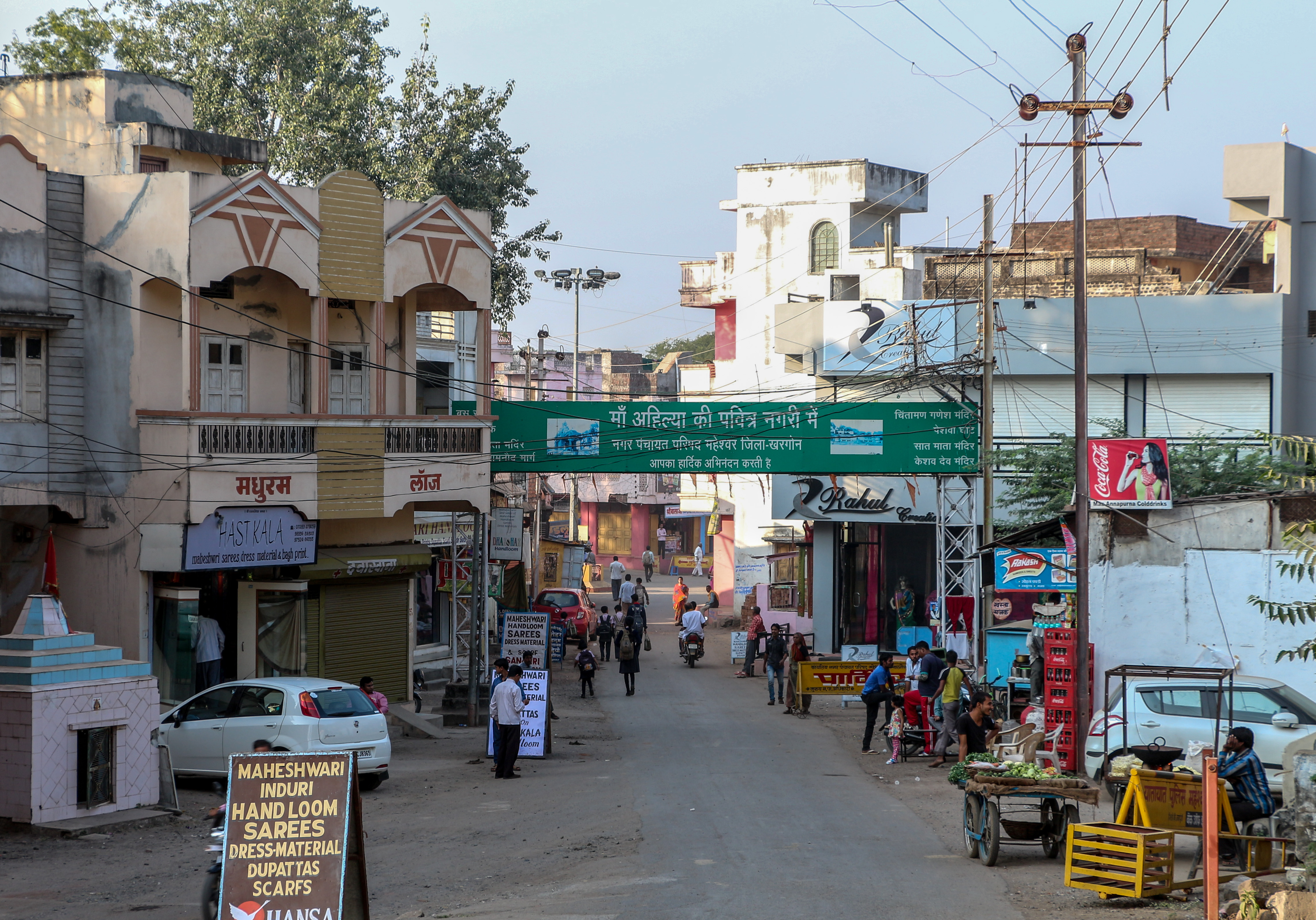 Street of Maheshwar, Madhya Pradesh, India